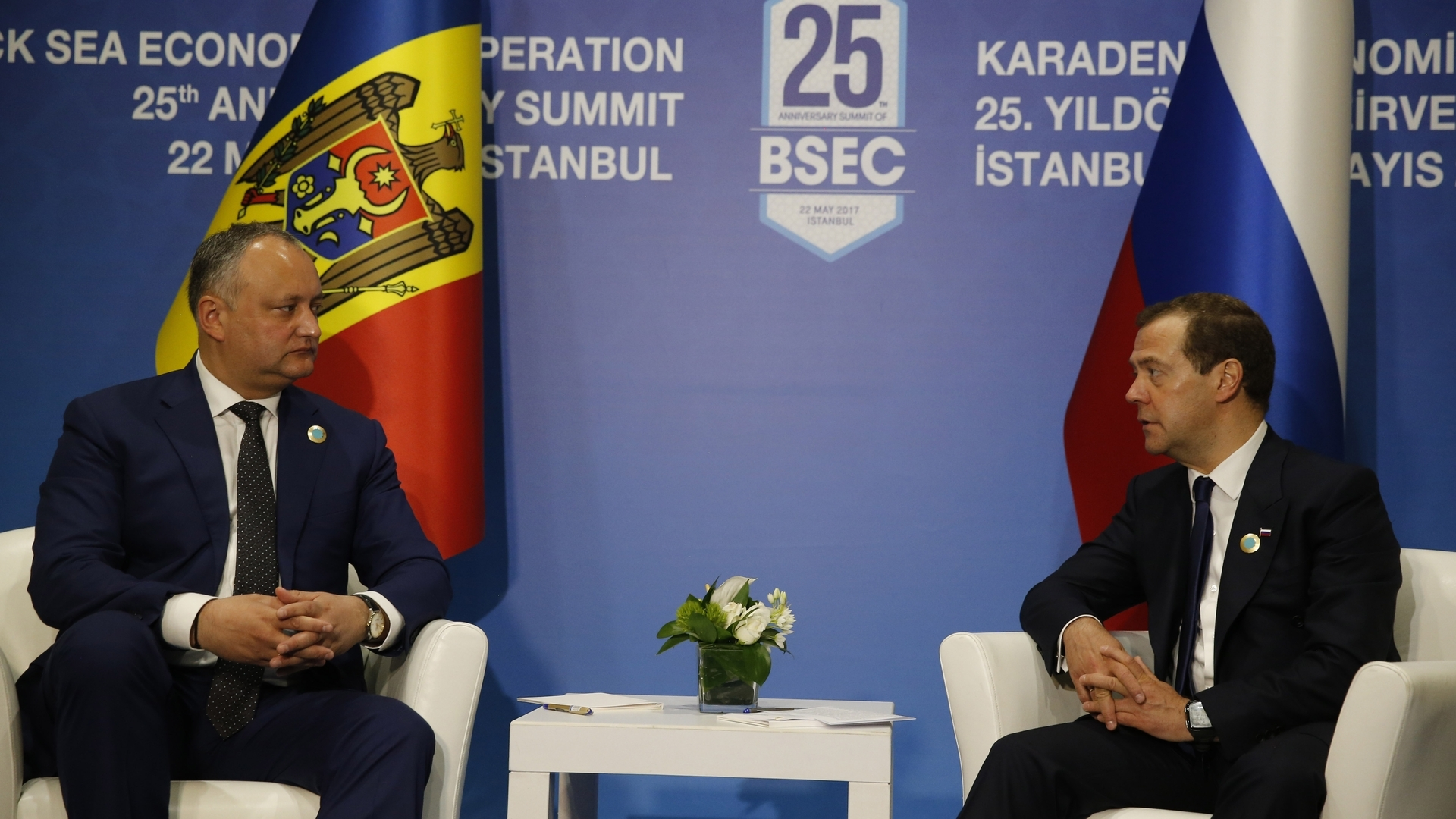 Excerpts from Dmitry Medvedev’s meeting with President of the Republic of Moldova Igor Dodon.